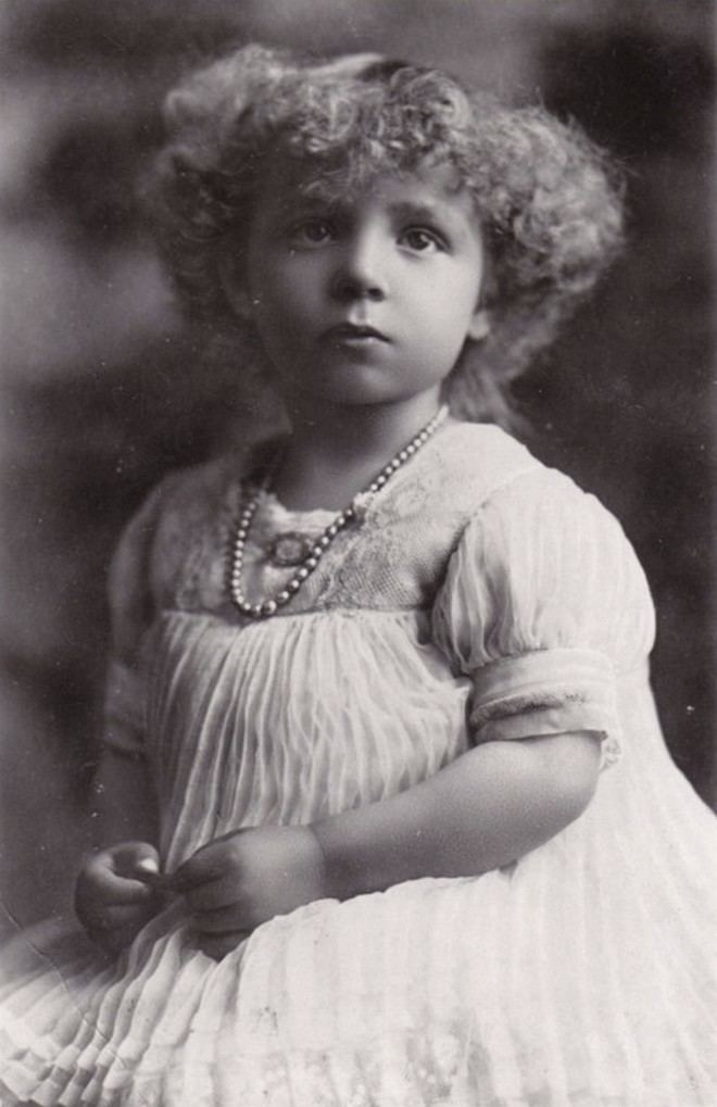 Photography of The Infanta Beatriz of Spain as a child